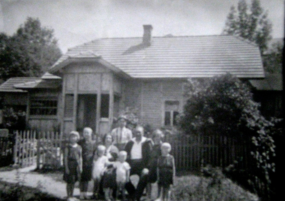 The Król family of the Righteous from Krasne before World War II in front of their house west of Nowy Sącz, Poland (location of Neu-Sandez Ghetto during the Holocaust), with Piotr (d.1956) and Zenobia (d.1979) sitting, both awarded posthumously. Photo circa 1937-39.